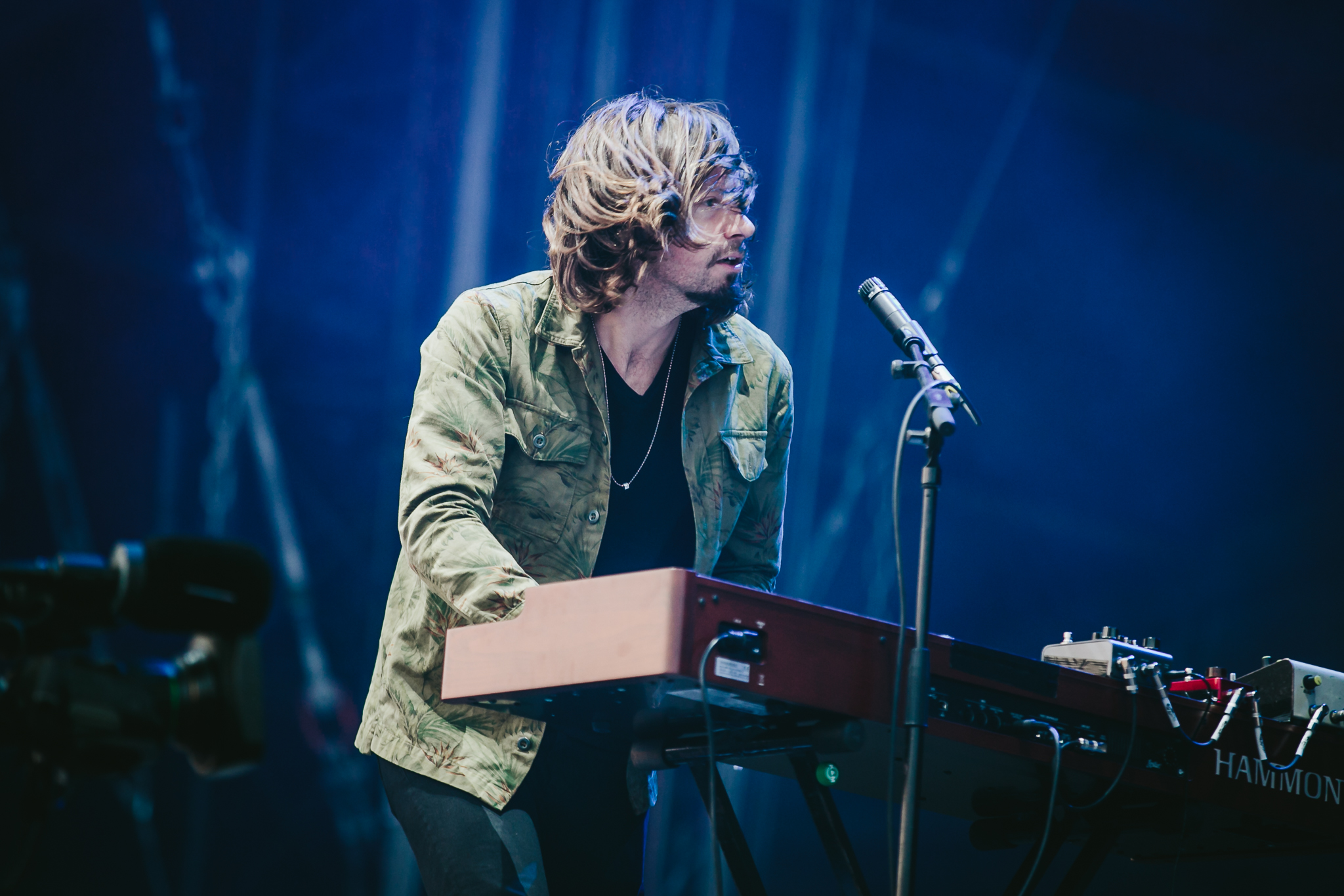 Wolfmother at Deichbrand Festival 2018